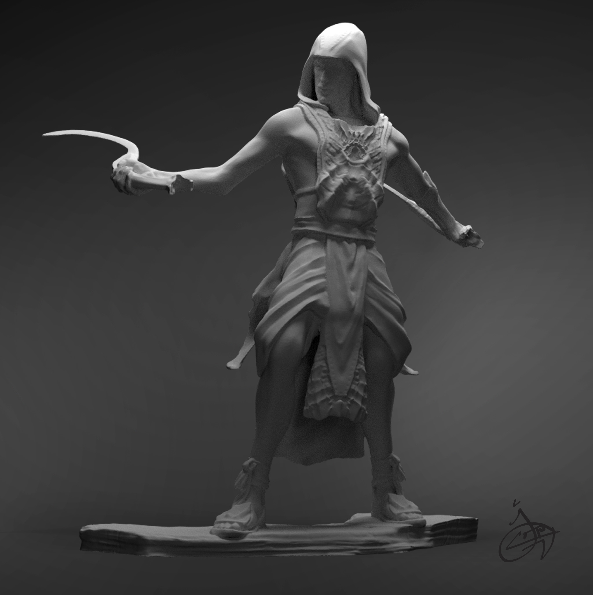 Amalackiah, Nephite dissenter and usurper of the Lamanite throne.